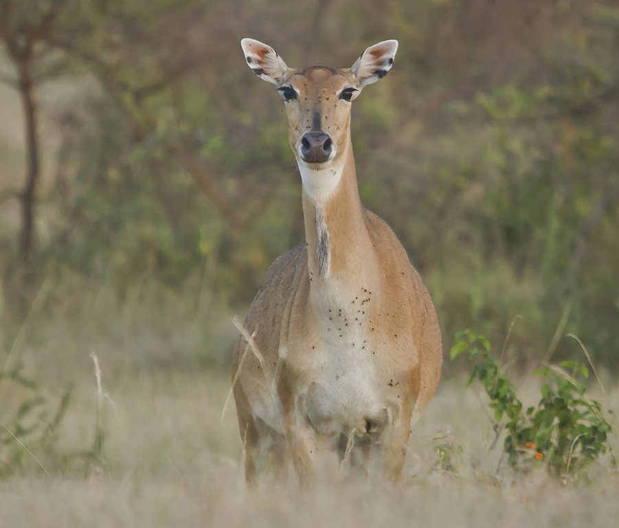 Grassland habitat